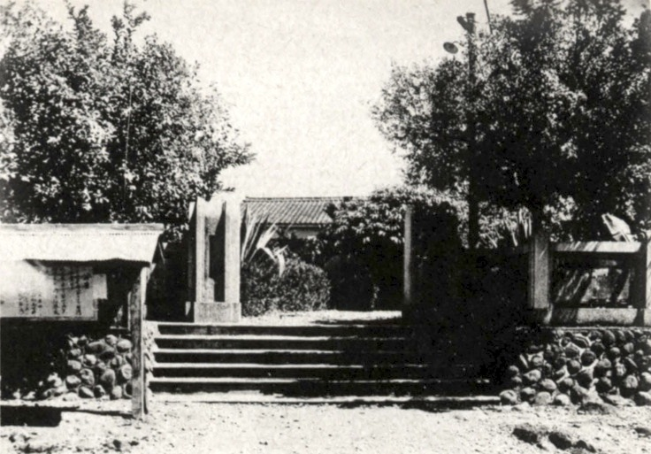 中寮庄役場